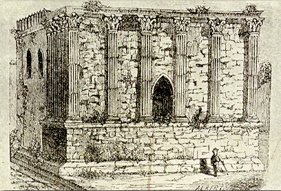 The Évora temple like it was before the modifications of 1871.